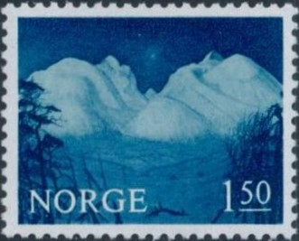 Norwegian 1965 stamp, showing Harald Sohlberg's 1914 painting 'Winter night in the mountains'